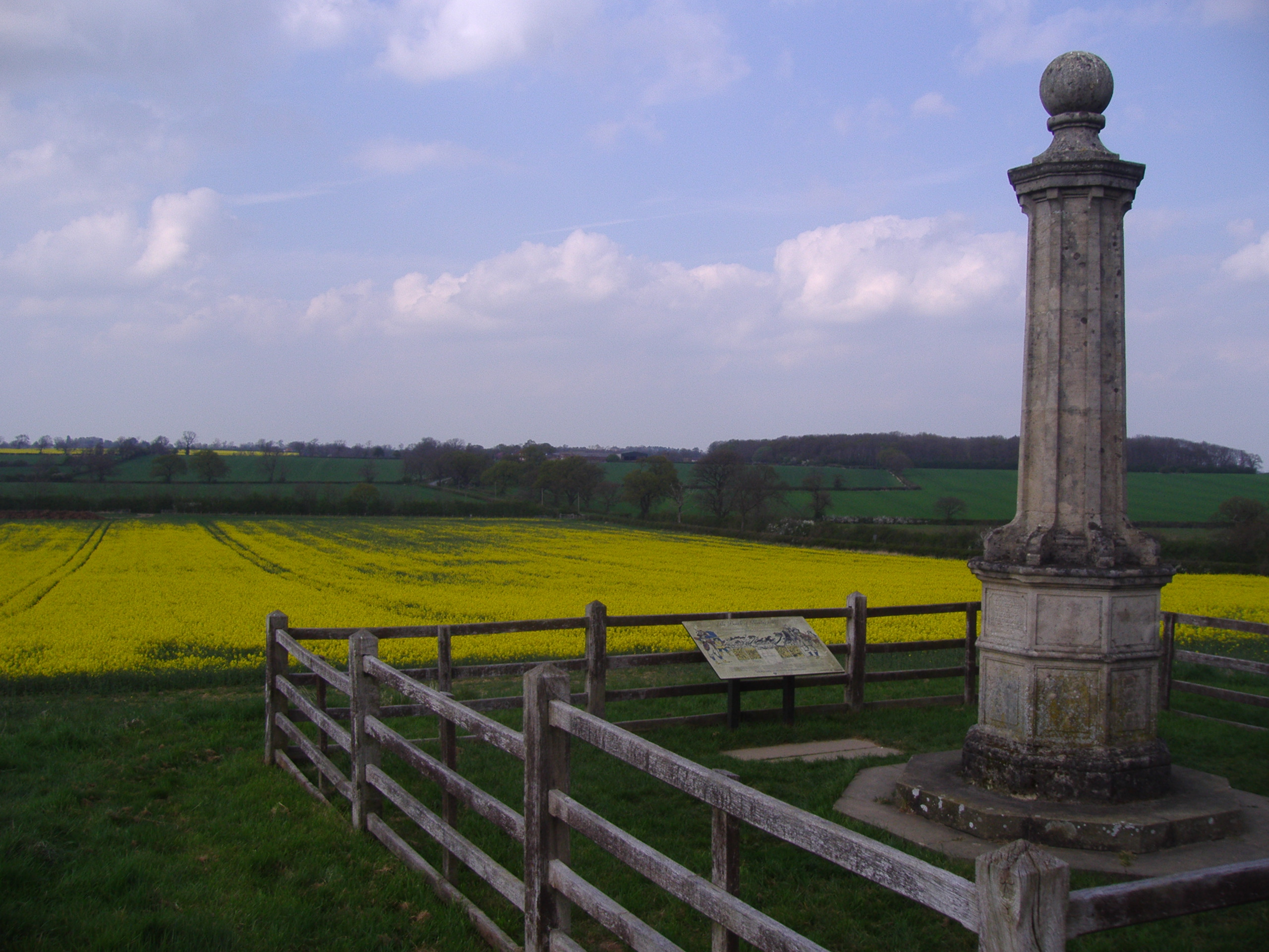 A Digital Photograph of the site of the Battle of Naseby